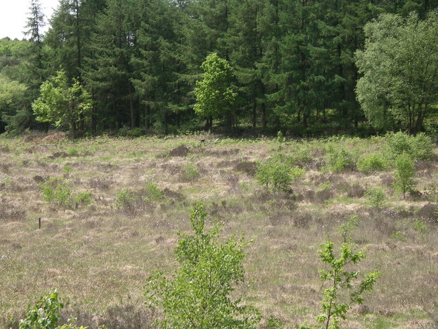 Cleddon Bog Small raised bog, evidence of drying and colonisation by birch